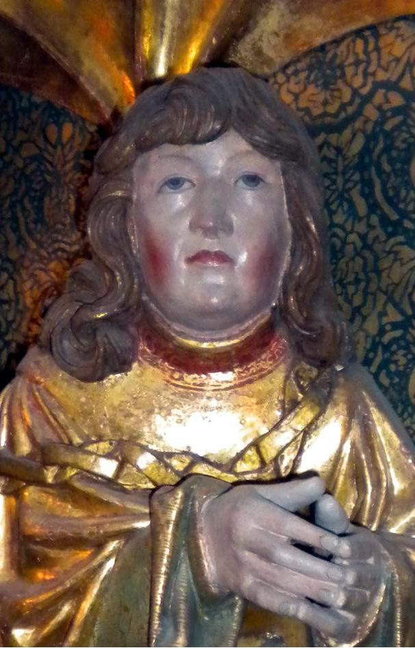 Prince Francis of Denmark, Norway and Sweden (with nephew John behind him) by Claus Berg about 1530Place: Church of St. Canute’s, Odense, Denmark